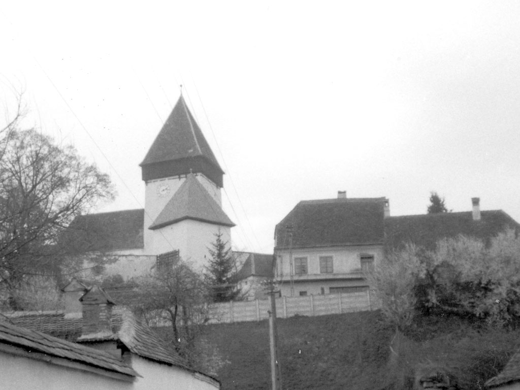 Fortress church in Hosman, Romania.